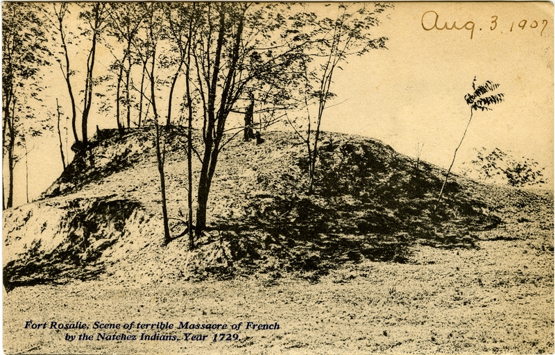 Old postcard of Fort Rosalie, the site of the battle between Natchez Indians and French settlers in 1729.